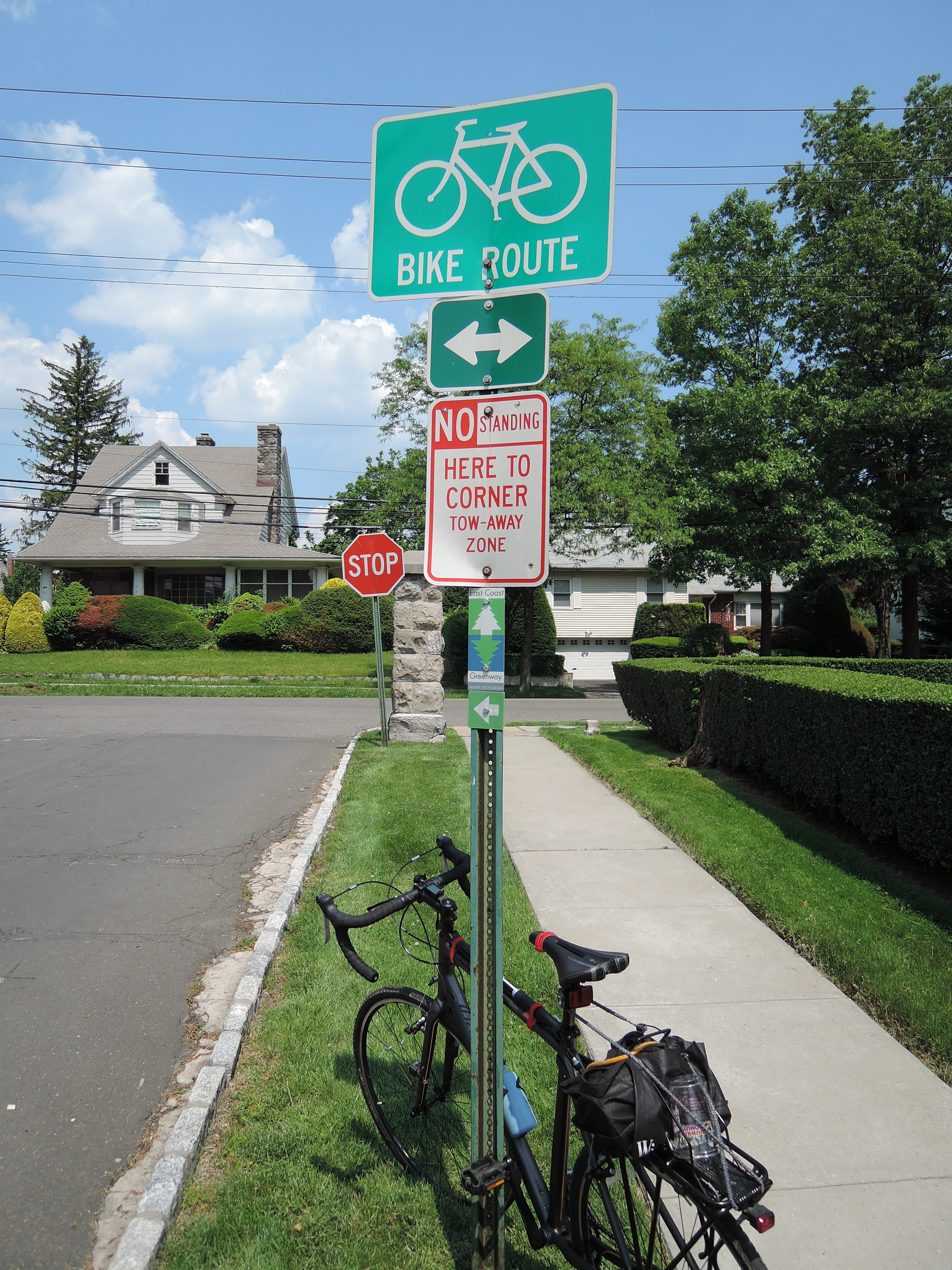 Looking northeast at ECGW sign on a sunny hot afternoon.